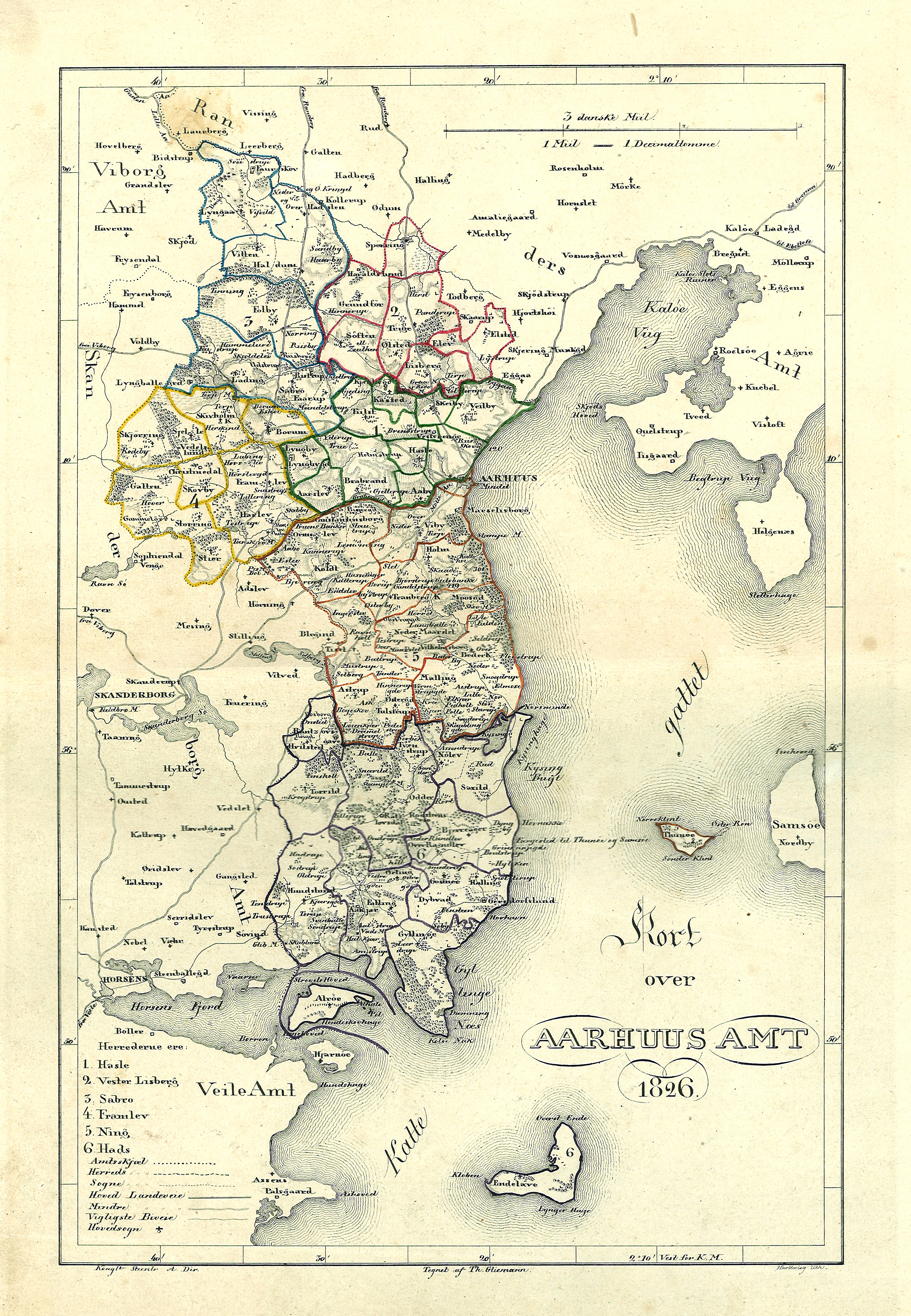 Århus Amt 1826, Denmark.